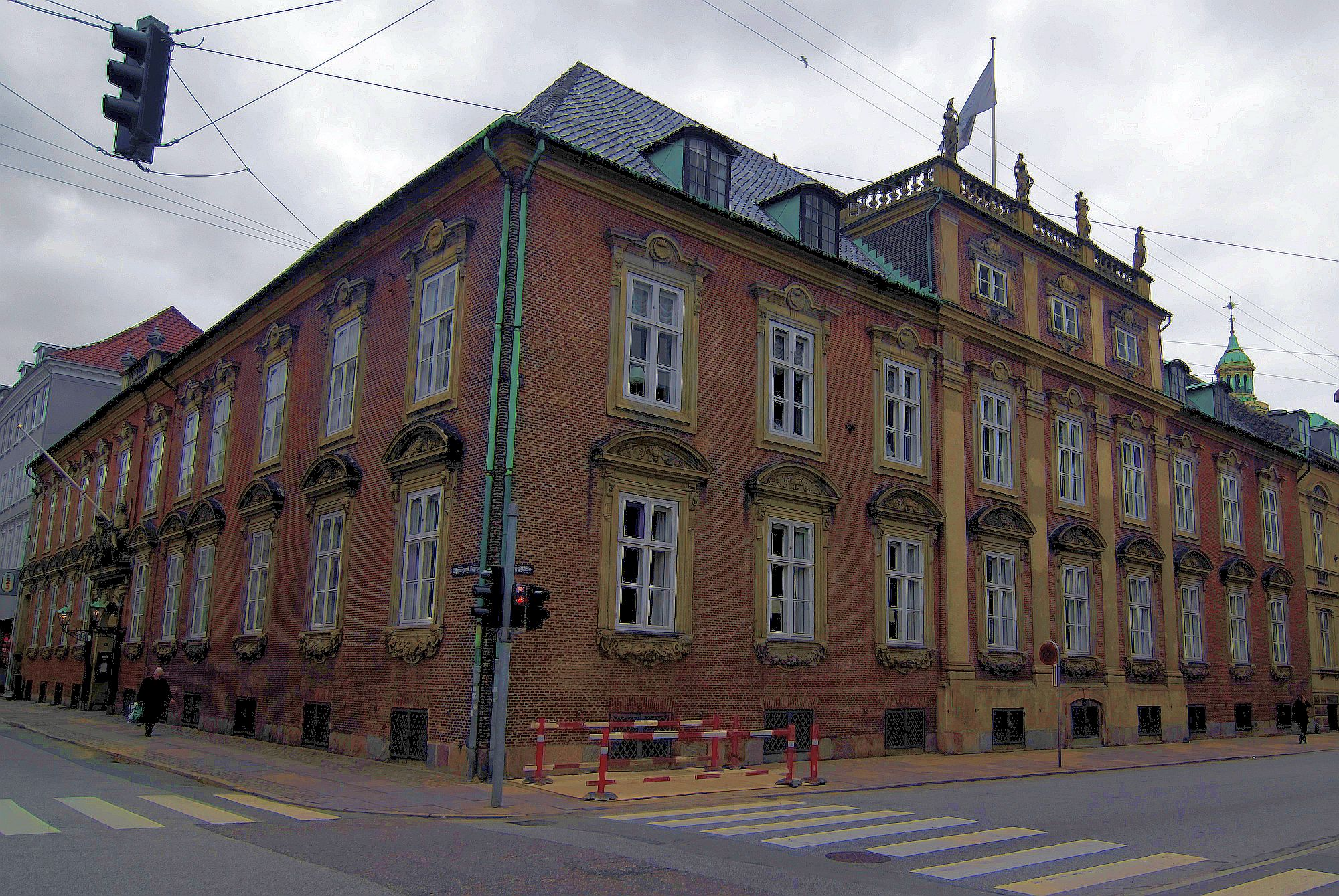 Moltkes Mansion (da: Moltkes Palæ) in Bredgade, Copenhagen. This photo was uploaded as a part of an conceptual idea: FindVej NoPic.